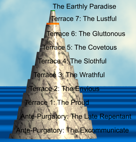 Plan of Mount Purgatory as described by Dante Alighieri in the Divine Comedy